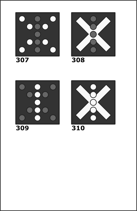 Diagrams of railway signals in Switzerland